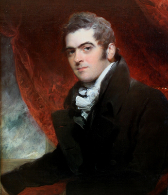 William Dacres Adams (1775-1862), of Bowden House, Ashprington, Devon, Private Secretary to two Prime Ministers of the United Kingdom, namely Pitt the Younger, 1804-06 and the Duke of Portland, 1807-09. 18th Century, oil on canvas, 30 x 25 inches 76.2 x 63.4 cm. Provenance: Adams family collection until sold at Sotheby's March 17th 1982 (lot 29); Berger Collection